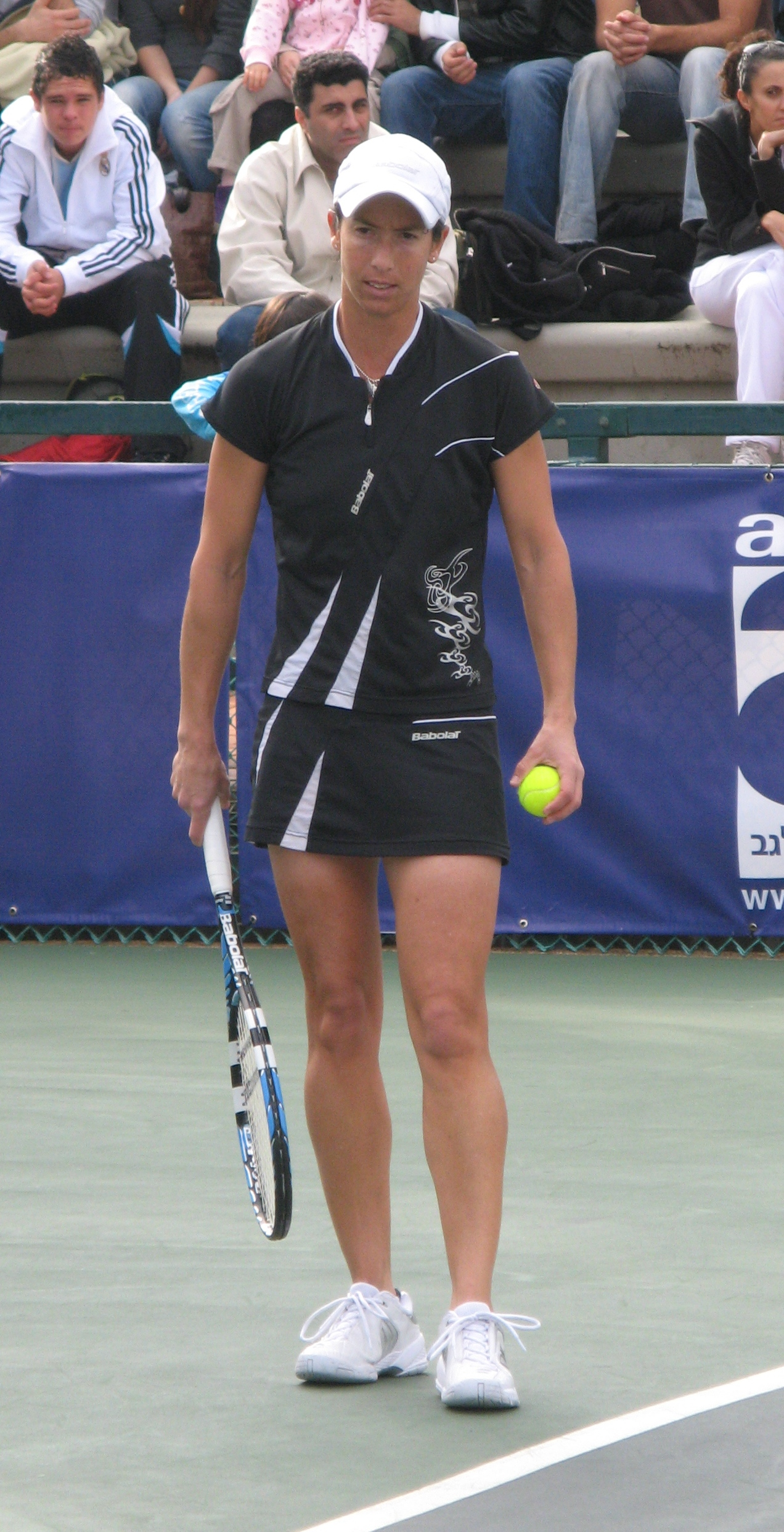 Israeli tennis player Tzipora Obziler at the Israel tennis championship 2008 final against Shahar Pe'er